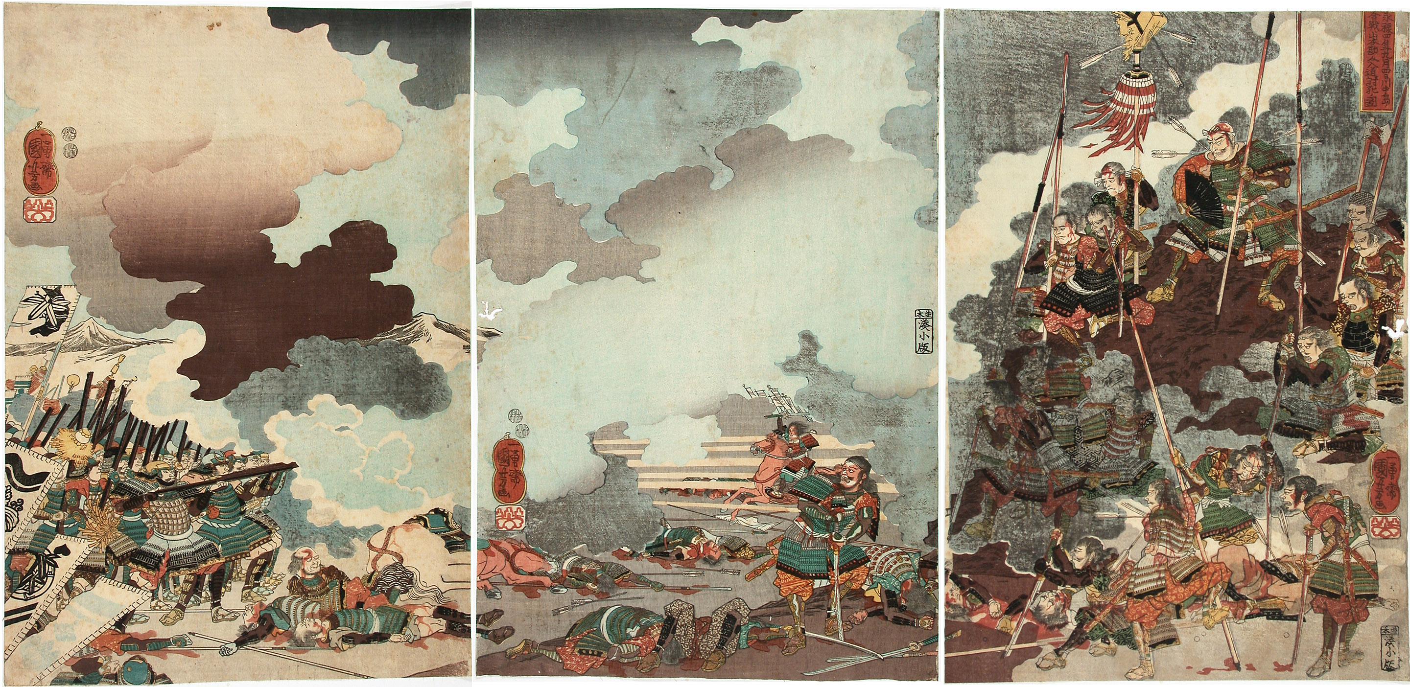 Yamamoto Kansuke and the remnant of his troops on a hillock mown down by the Uesugi musketeers at Kawanakajima on October 12, 1561